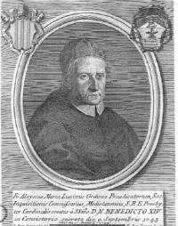 Portrait of Cardinal Luigi Maria Lucini (1666-1745)